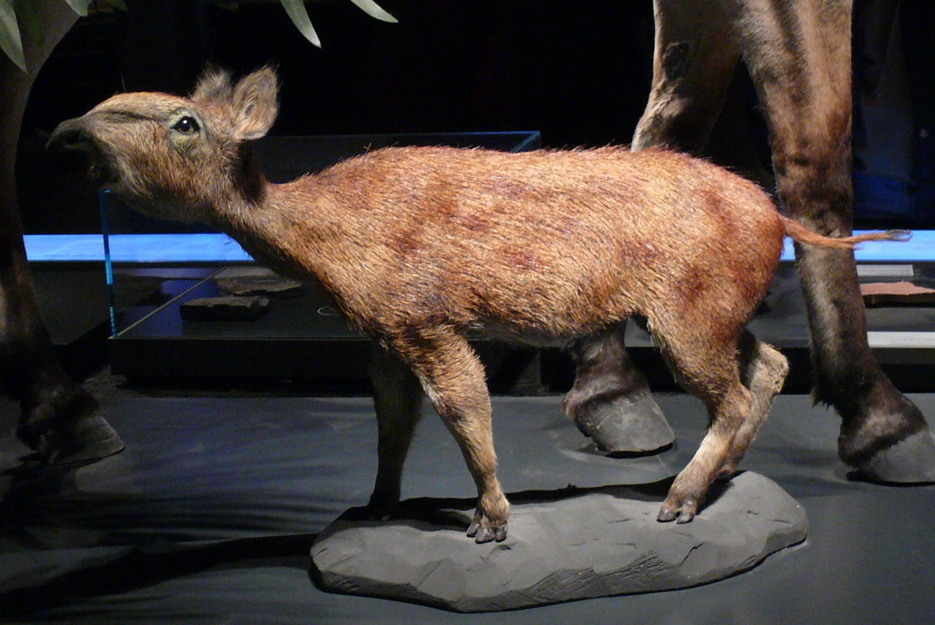 Eurohippus parvulus from Grube Messel Franzen, J.L. 2006. Eurohippus n.g., a new genus of horses from the Middle to Late Eocene of Europe. Senckenbergiana Lethaea 86(1):97-104.